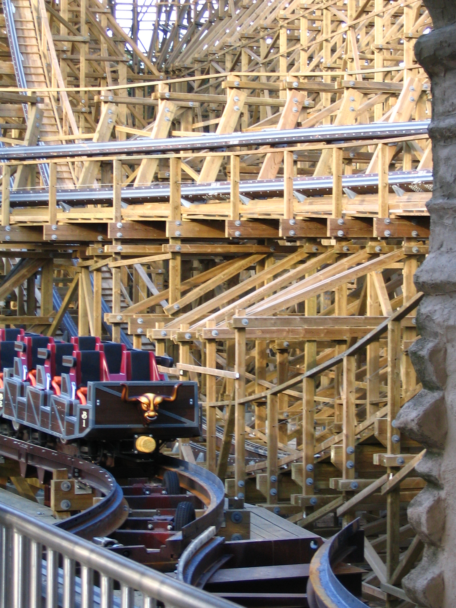 Looking out the back of El Toro's station. From top to bottom: the turn into the crossover and twister section, the headchopper at the bottom of the first drop, and train B on the storage track.